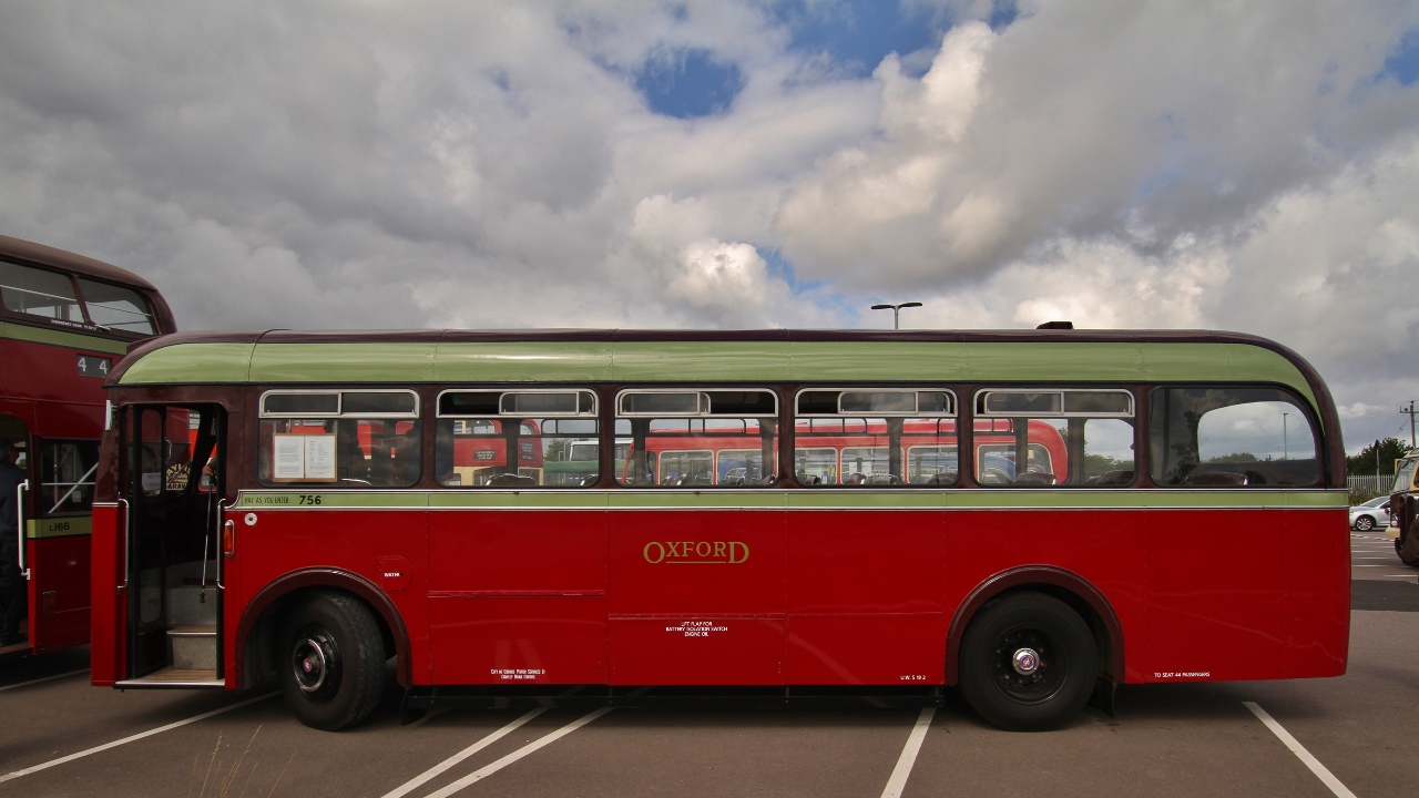 1960 AEC Reliance bus with Park Royal Body, registration mark 756 KFC, at Oxford Parkway railway station in Oxfordshire. The bus was operated by City of Oxford Motor Services, fleet number 756.